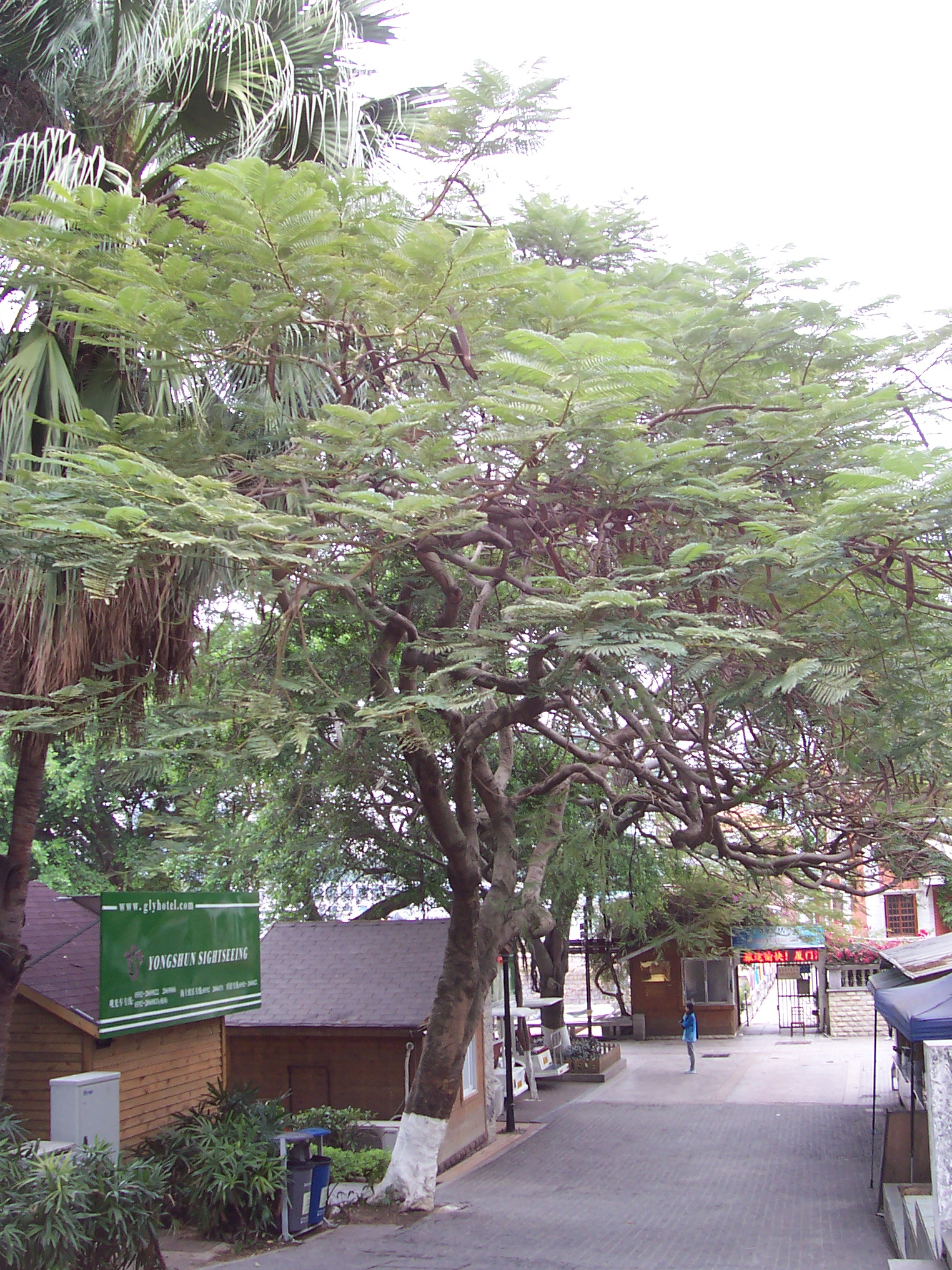 Delonix regia,Gulangyu Island,Xiamen